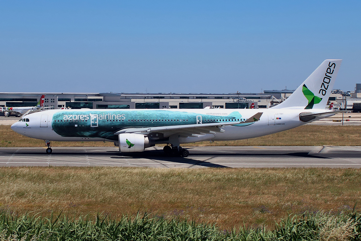 Aircraft: Airbus A330-223 Airline: Azores Airlines Serial #: 970 Lisbon Aeroporto da Portela de Sacavem - LPPT, June 18, 2016